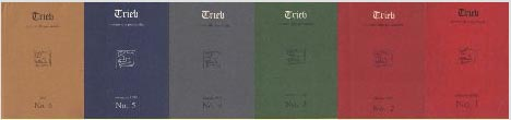 Journal Trieb